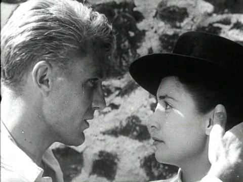 Bullfighter and the Lady (1951), directed by Budd Boetticher, with Robert Stack and Joy Page